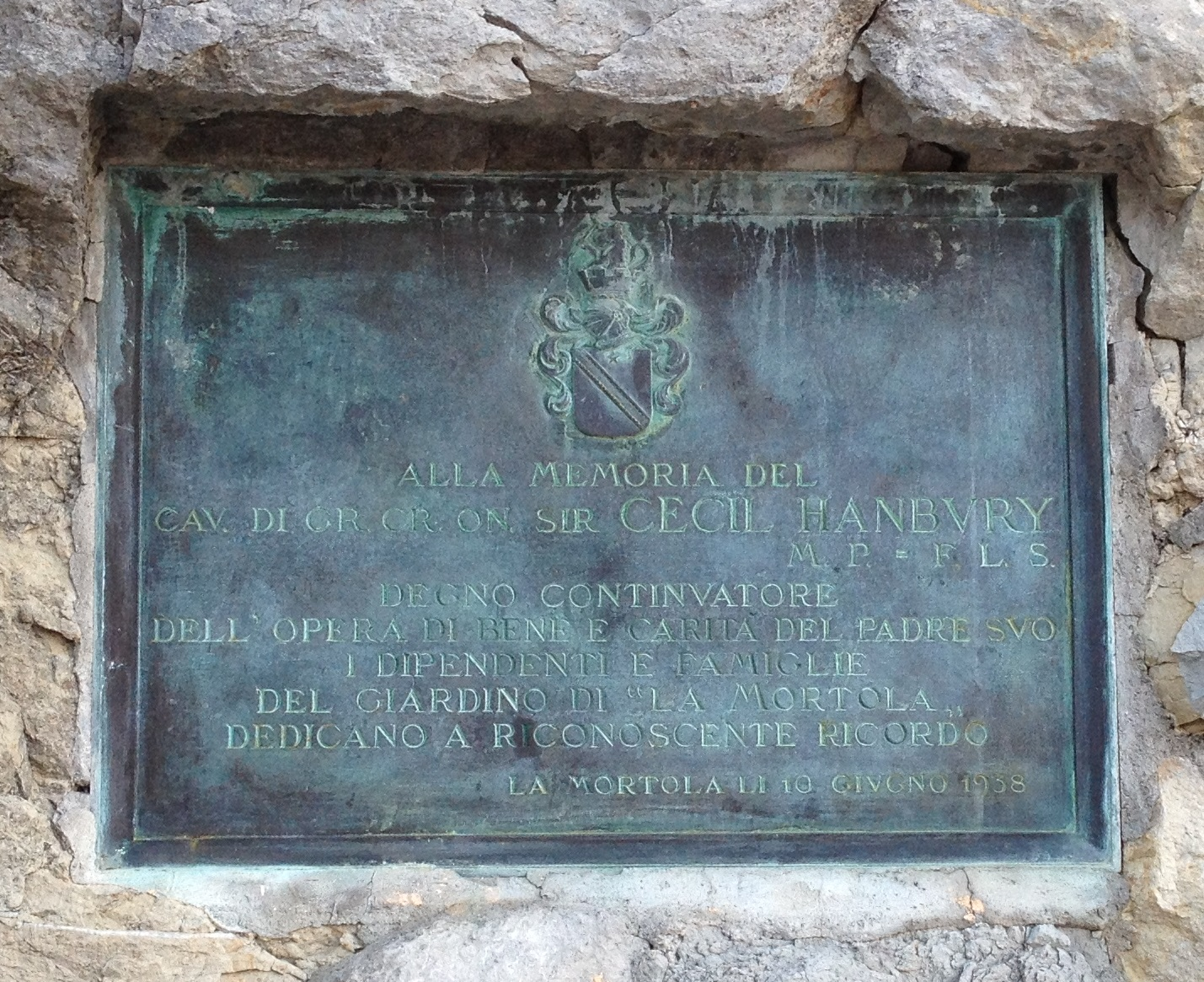 Cecil Hanbury memorial plaque in Piazza San Mauro, La Mortola (Ventimiglia)